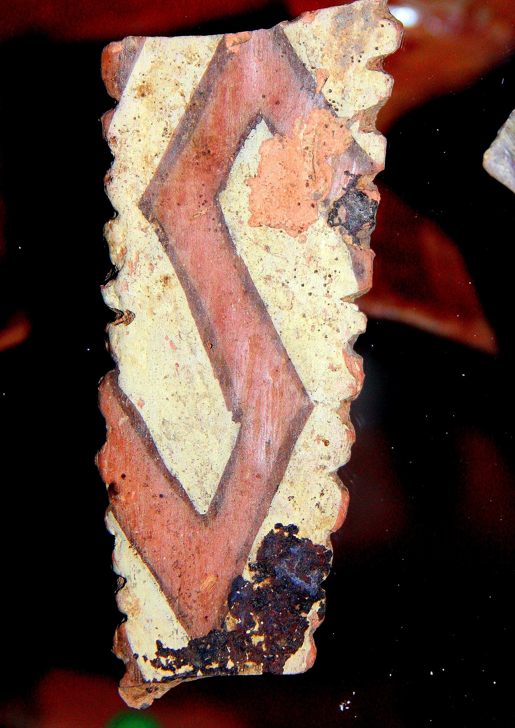 Cucuteni Artefact